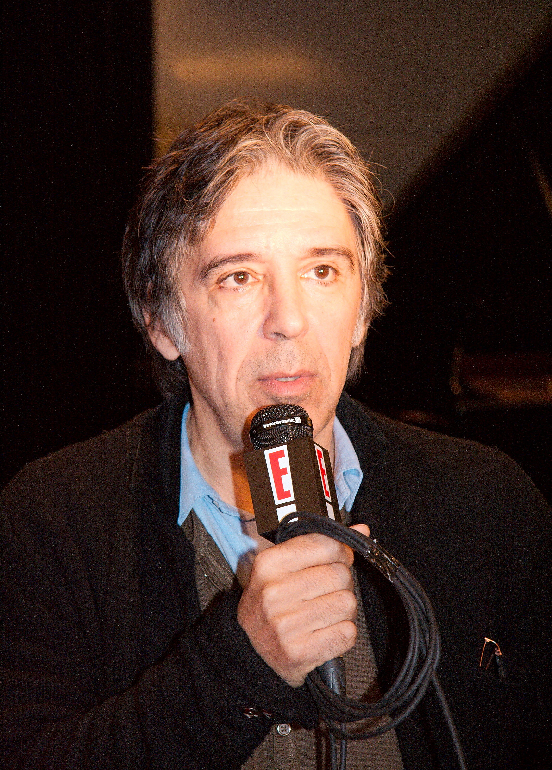 Rendezvous with Ariel Zeitoun at Fnac des Ternes (Paris, France).